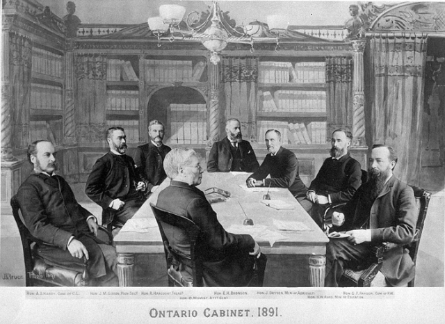 Description: Ontario. Cabinet, 1891, 1/2 plate glass copy neg. from composite photo by Josiah Bruce Notes: Shows, clockwise starting at centre foreground: O. Mowat, A.S. Hardy, J.M. Gibson, R. Harcourt, E.H. Bronson, J. Dryden, G.W. Ross, C.F. Fraser Shows inscription in the photo 1.1.: J. Bruce Photo 1891